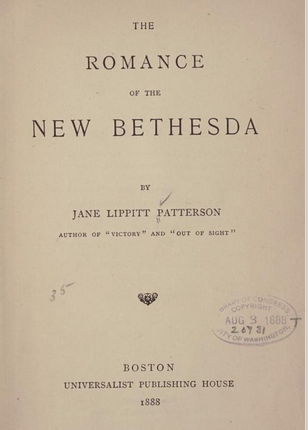 The Romance of the New Bethesda, by Patterson, Jane Lippitt, 1829-1919